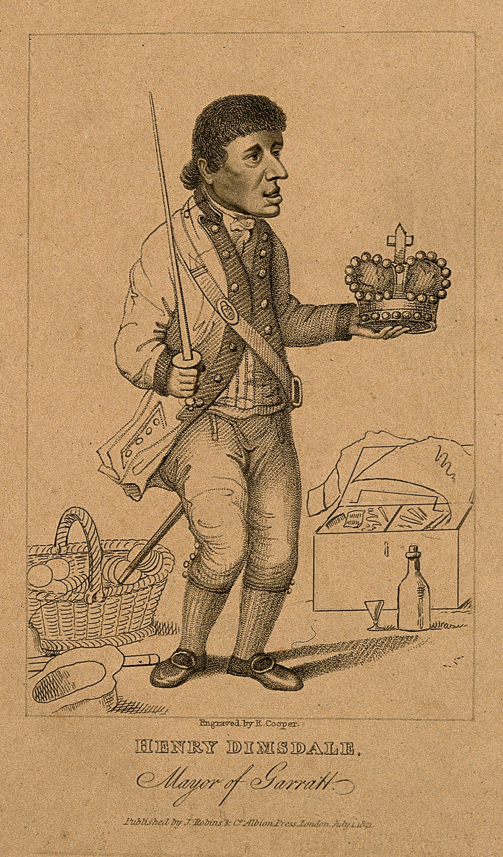 Henry Dimsdale, an eccentric who calls himself 'Mayor of Garratt'. Stipple engraving by R. Cooper. Iconographic Collections Keywords: Henry Dimsdale; portrait prints; Robert Cooper; dimsdale, henry; eccentrics and eccentricities; stipple prints